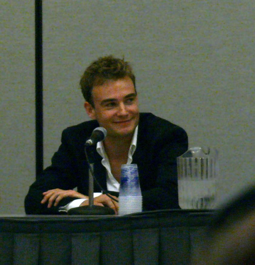 Robin Dunne 2009/01/20: I, Alisa Ward, the copyright holder, license this photograph under the Commons Creative Commons Attribution Share Alike License. I hereby grant permission to share and make derivative works of this photograph under the conditions that you attribute it, and that you distribute the resulting work only under the same or similar license to this one.